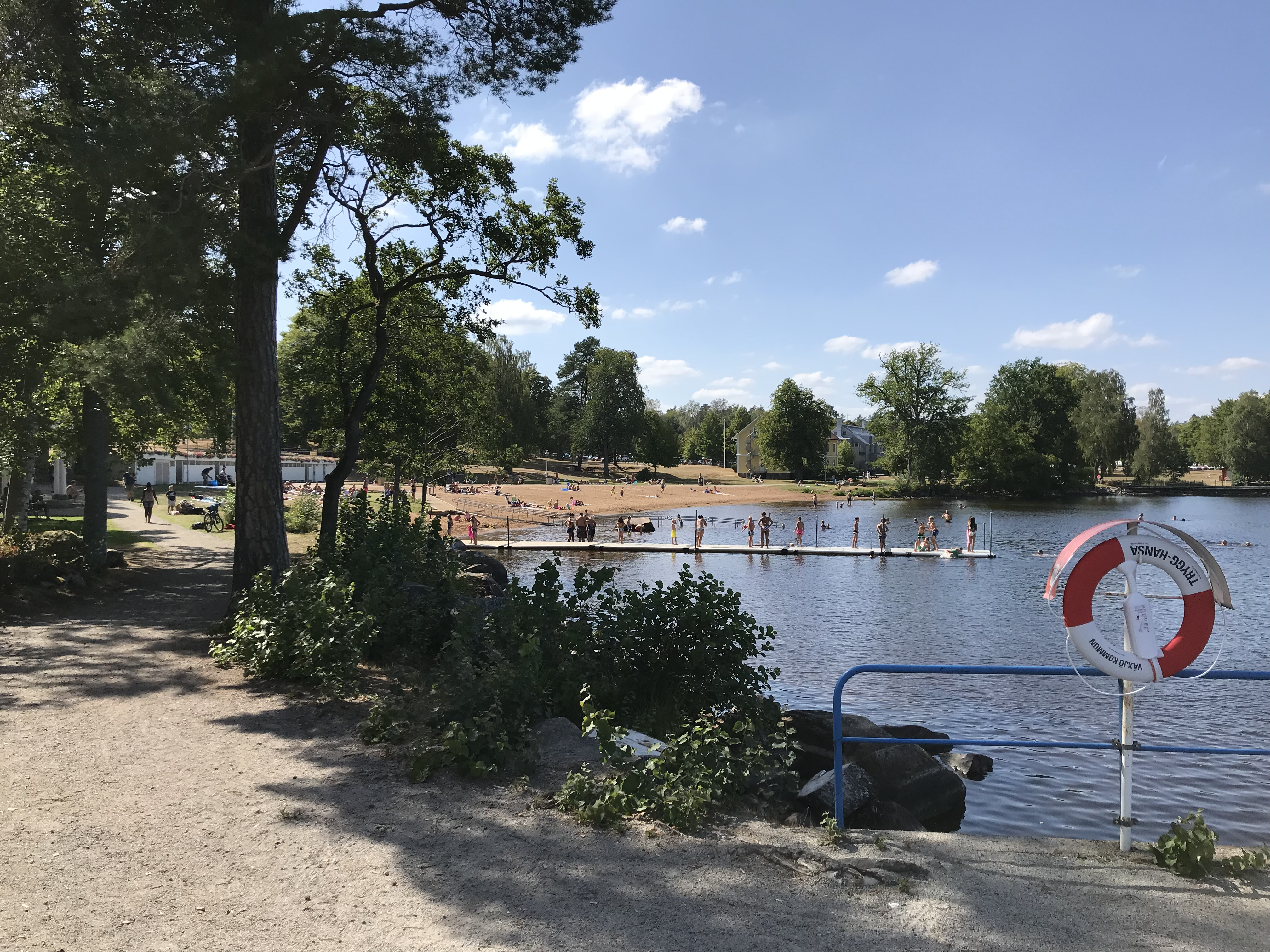 Evedal beach by the lake Helgasjön in Växjö